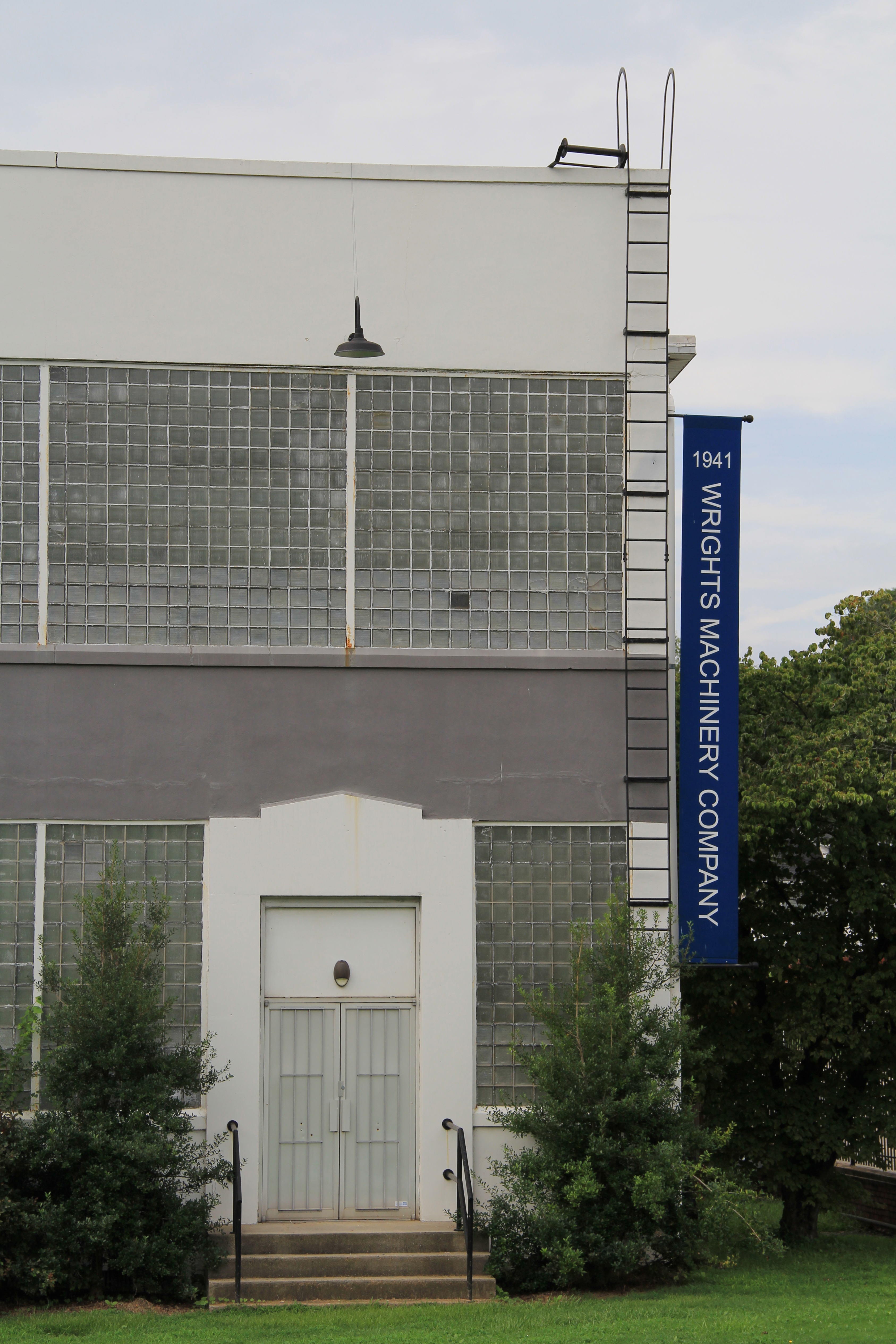 Door and blue banner, Wright's Machinery Company 1941, historic building, Durham, North Carolina, 2014. Uploaded as part of the Wikimedia loves Monuments 2014 camping trip. This image was uploaded as part of Wikipedia Summer of Monuments. English |+/−